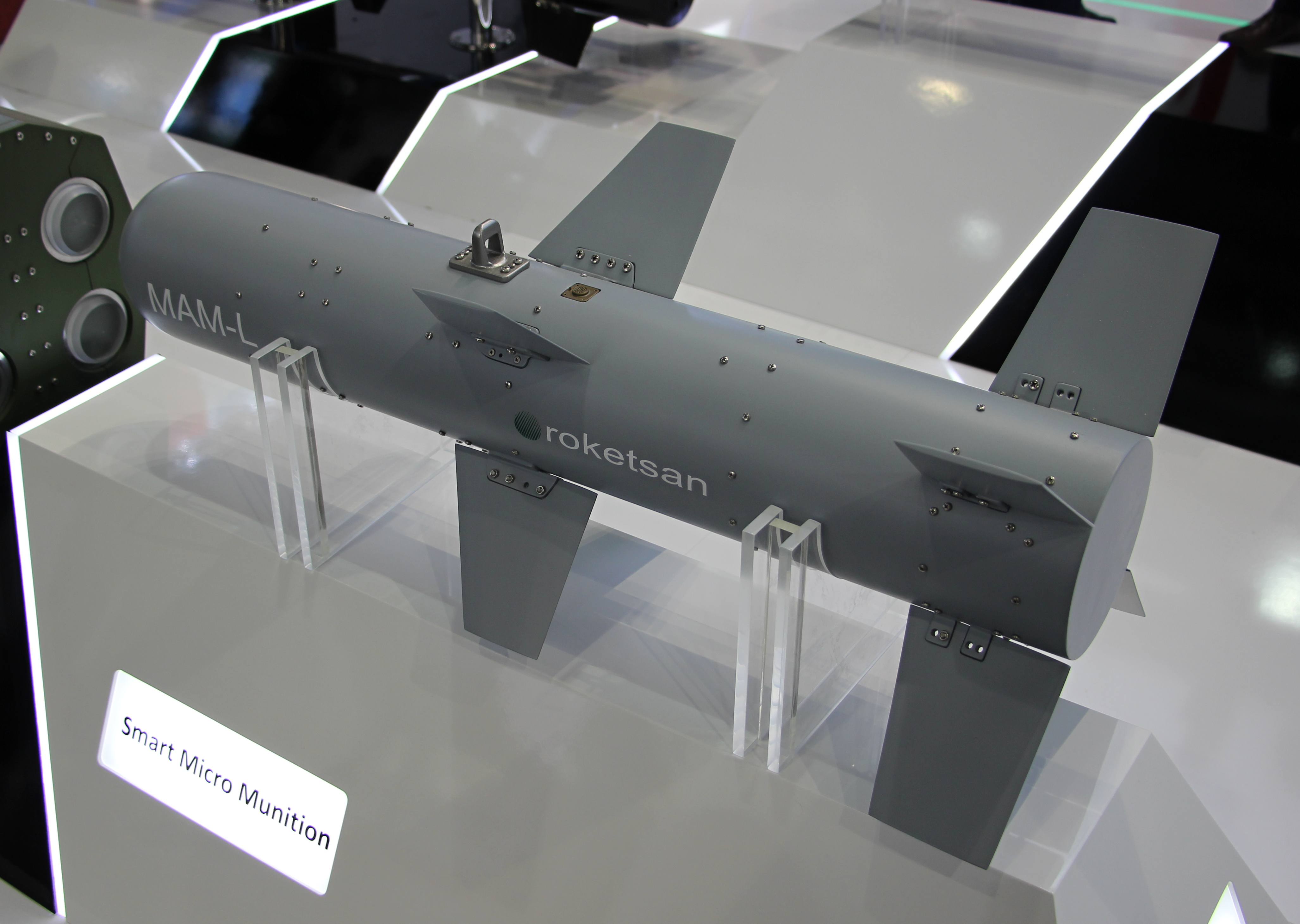 The Smart Micro Munition (MAM-L) developed by Roketsan for air platforms with low payload capacity, e.g. unmanned aerial vehicles (UAVs). IDET 2017, Brno Exhibition Center, Czech Republic.